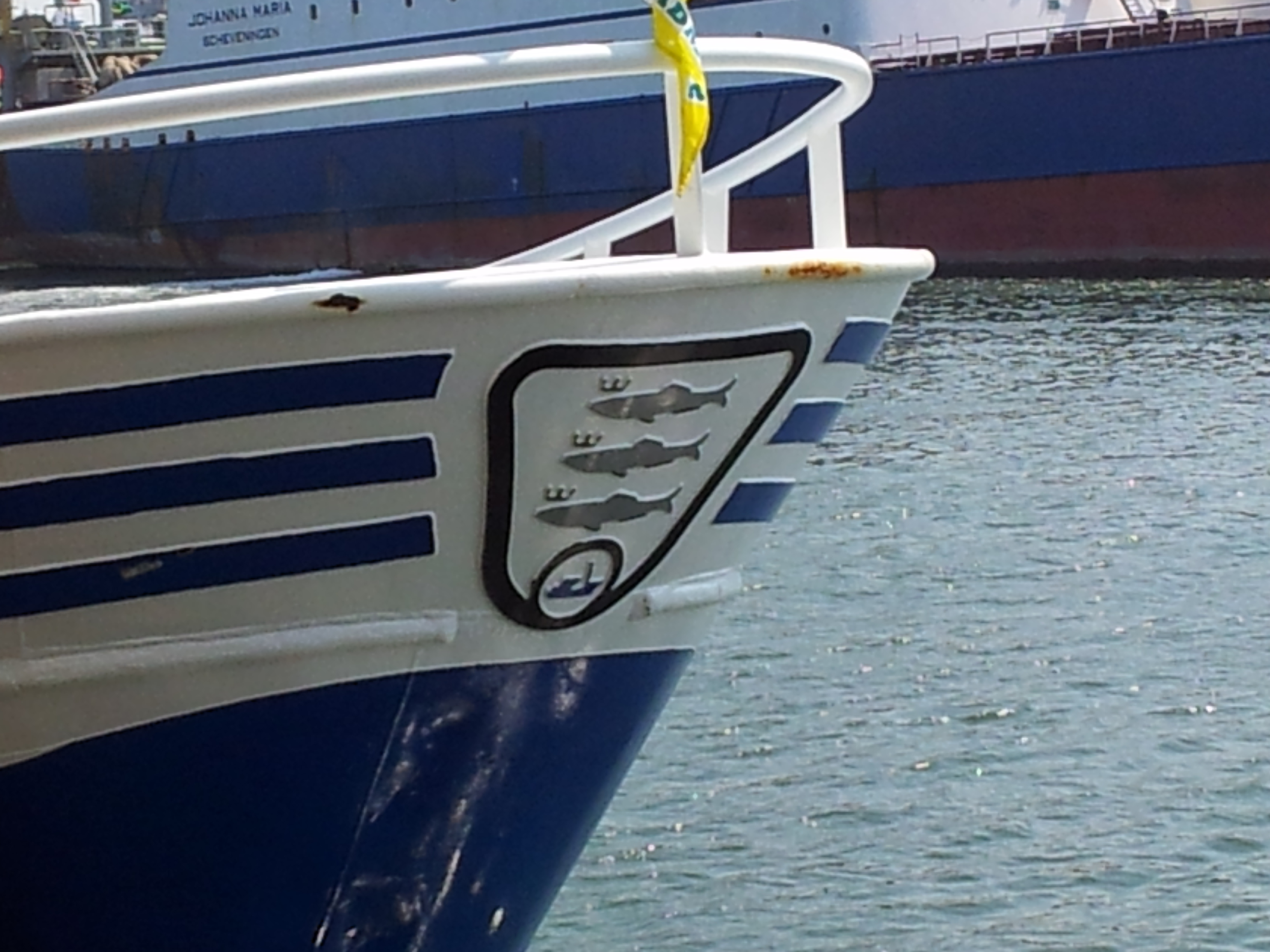 Scheveninghen fish boat coat of arms